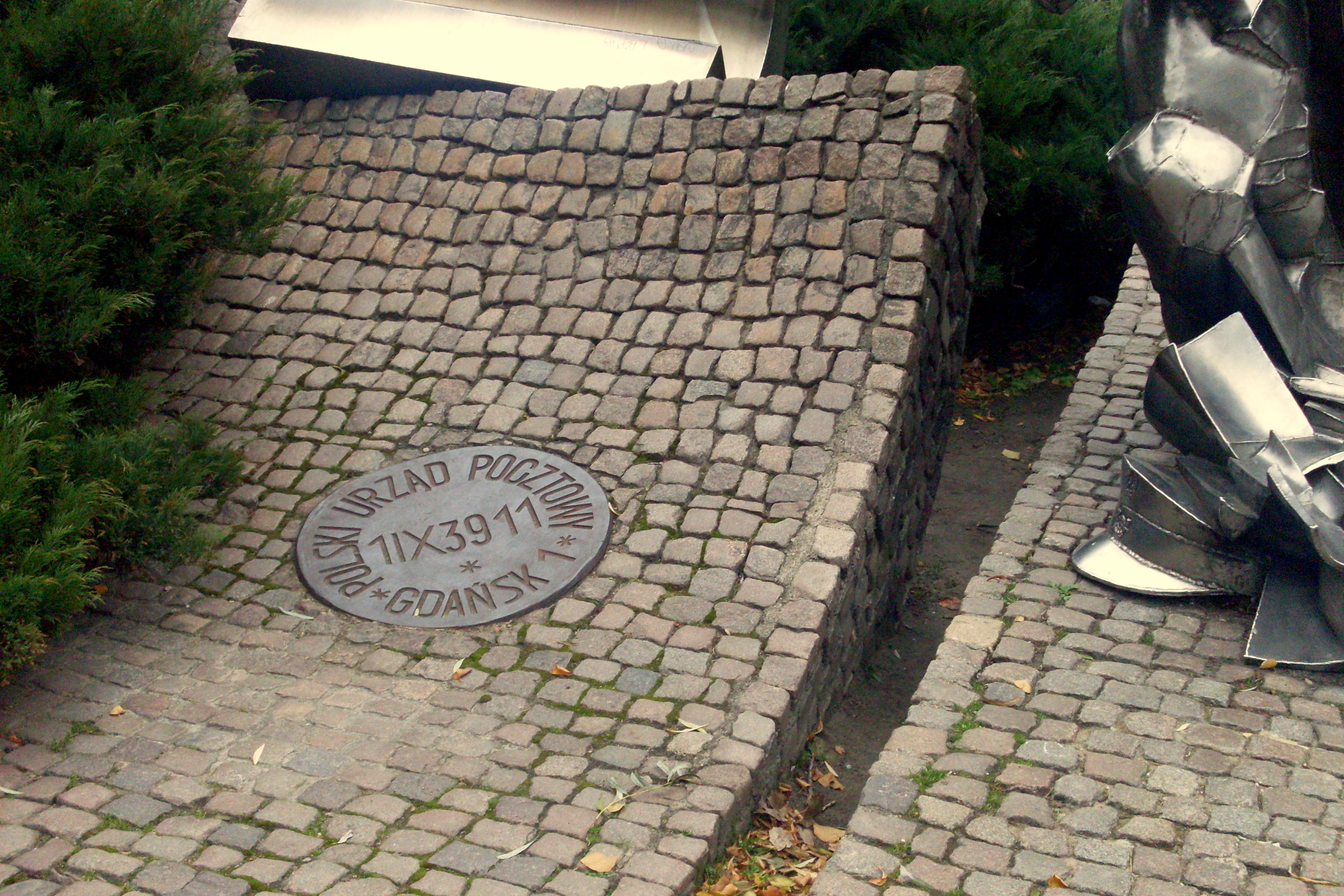 Postmark of Polish Post Office in Gdańsk with the date of 1 September 1939. This is fragment of Defenders of the Polish Post Office Monument in Gdańsk.